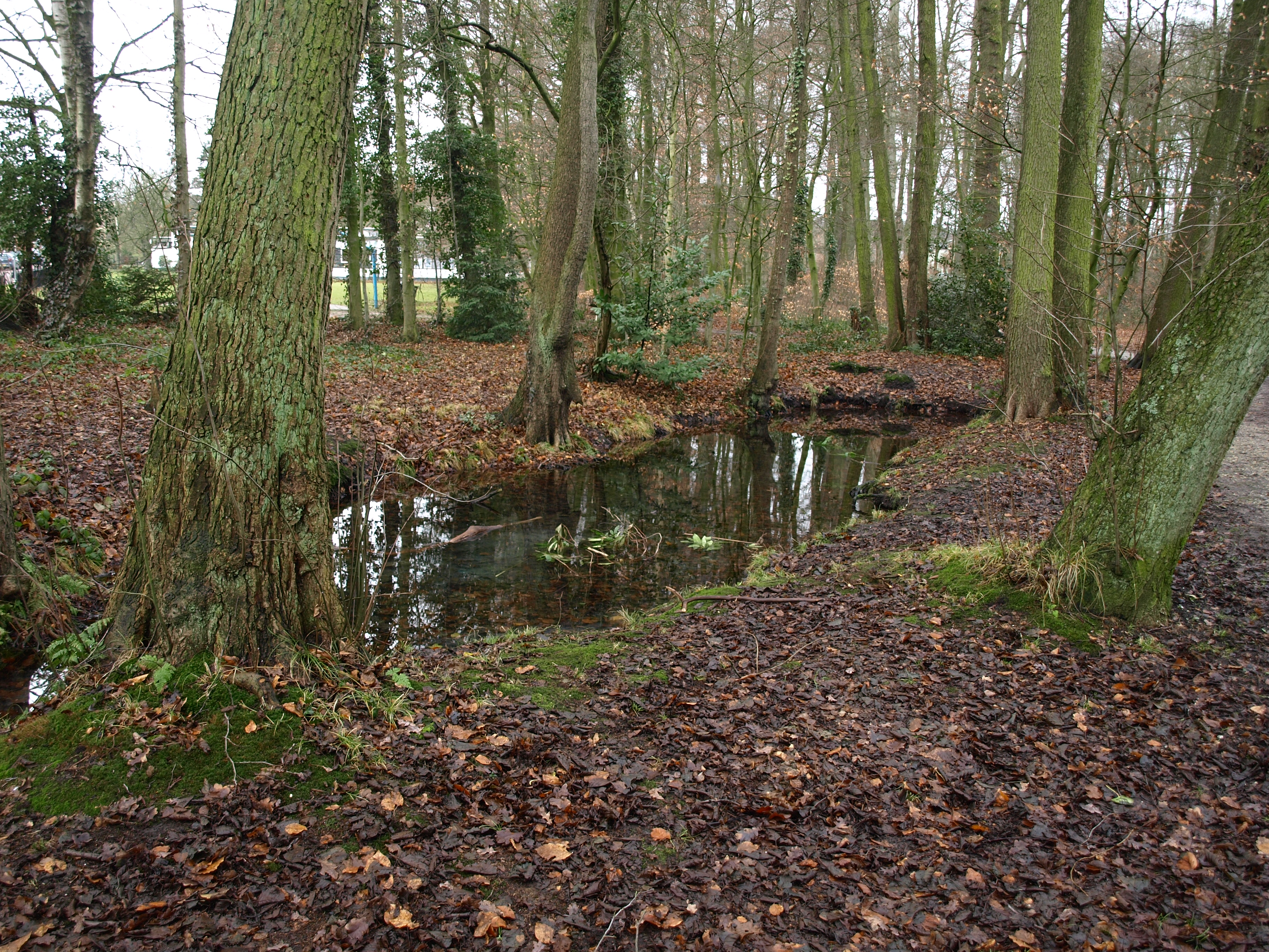 Start of the Julianabeek, in Arnhem